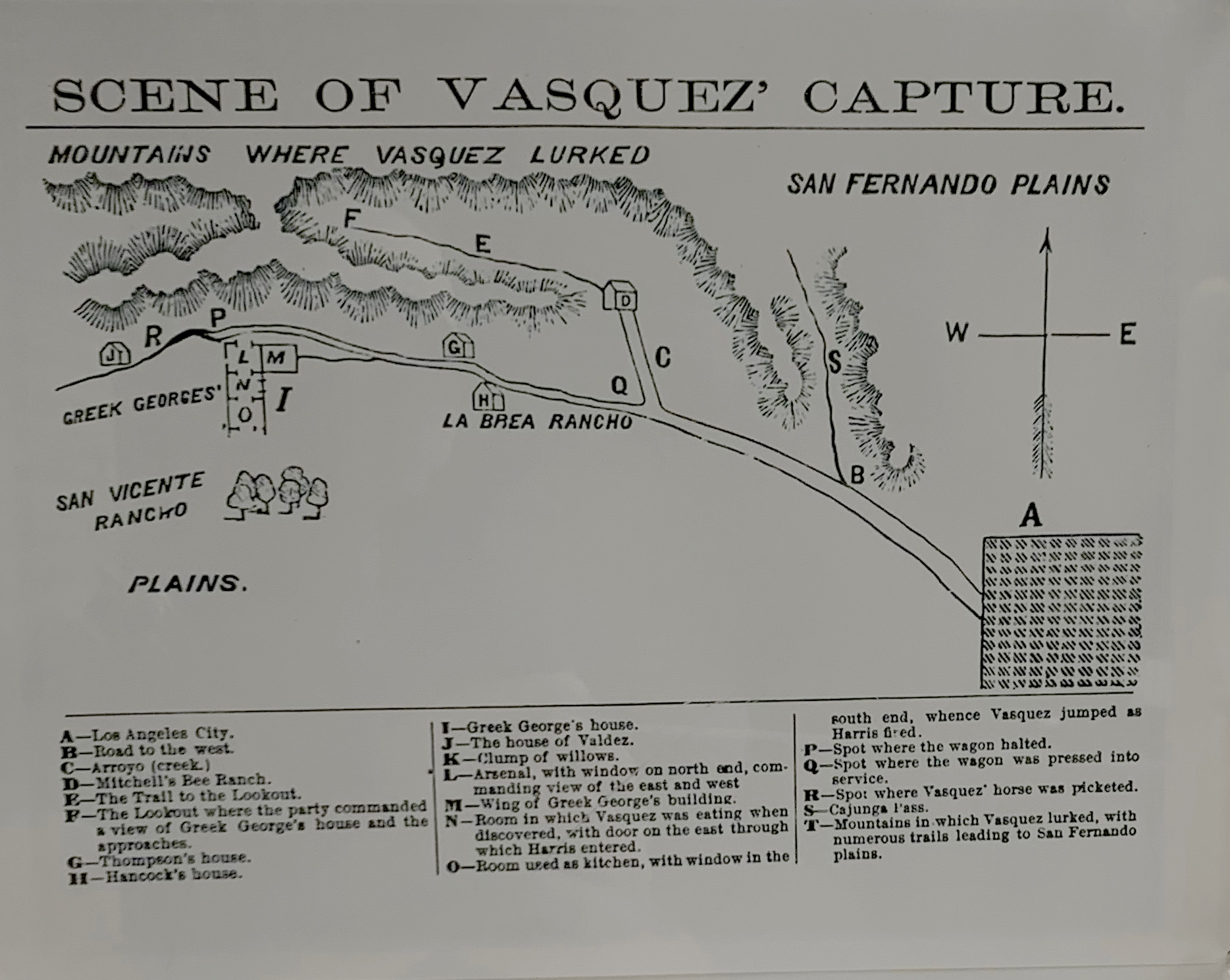 Historic map of Tiburcio Vásquez capture